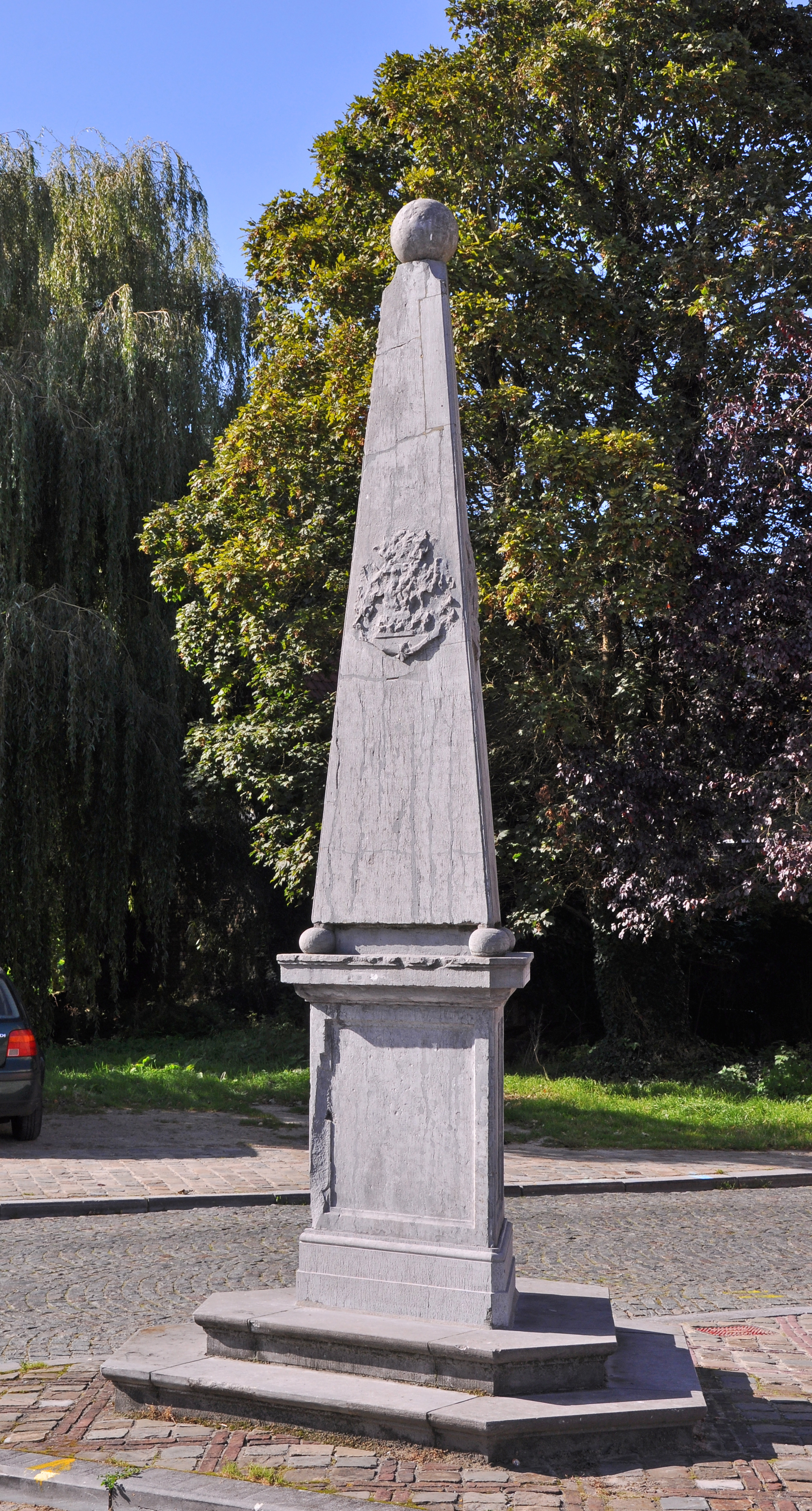 Male (Bruges, Belgium): the pillory